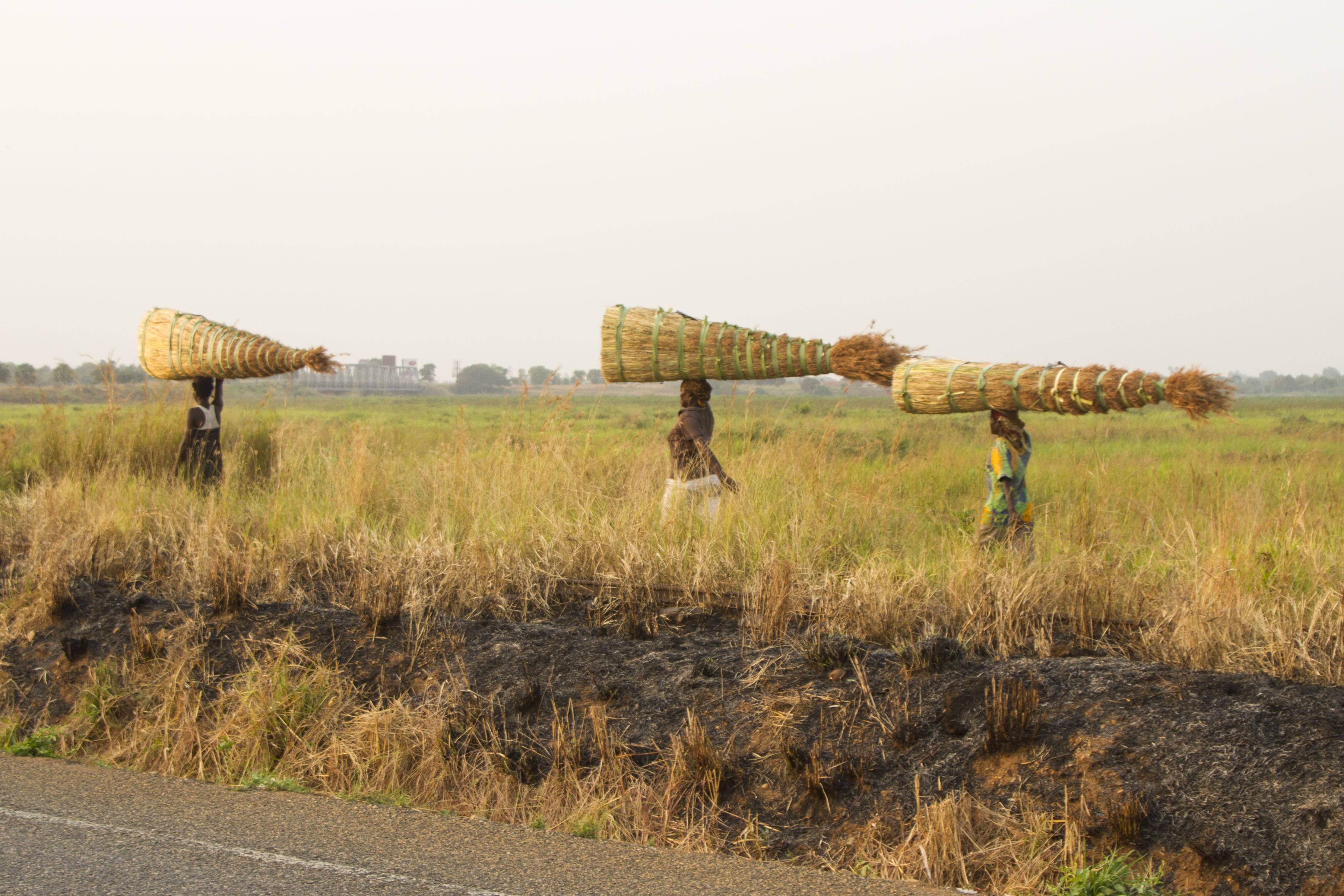 3 women walk along old railway tracks carrying spear grass to the market in Pakwach, Northern Uganda This is an image with the theme "Africa on the Move or Transport" from: Uganda